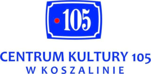 logo ck, Centrum Kultury 105 w Koszalinie